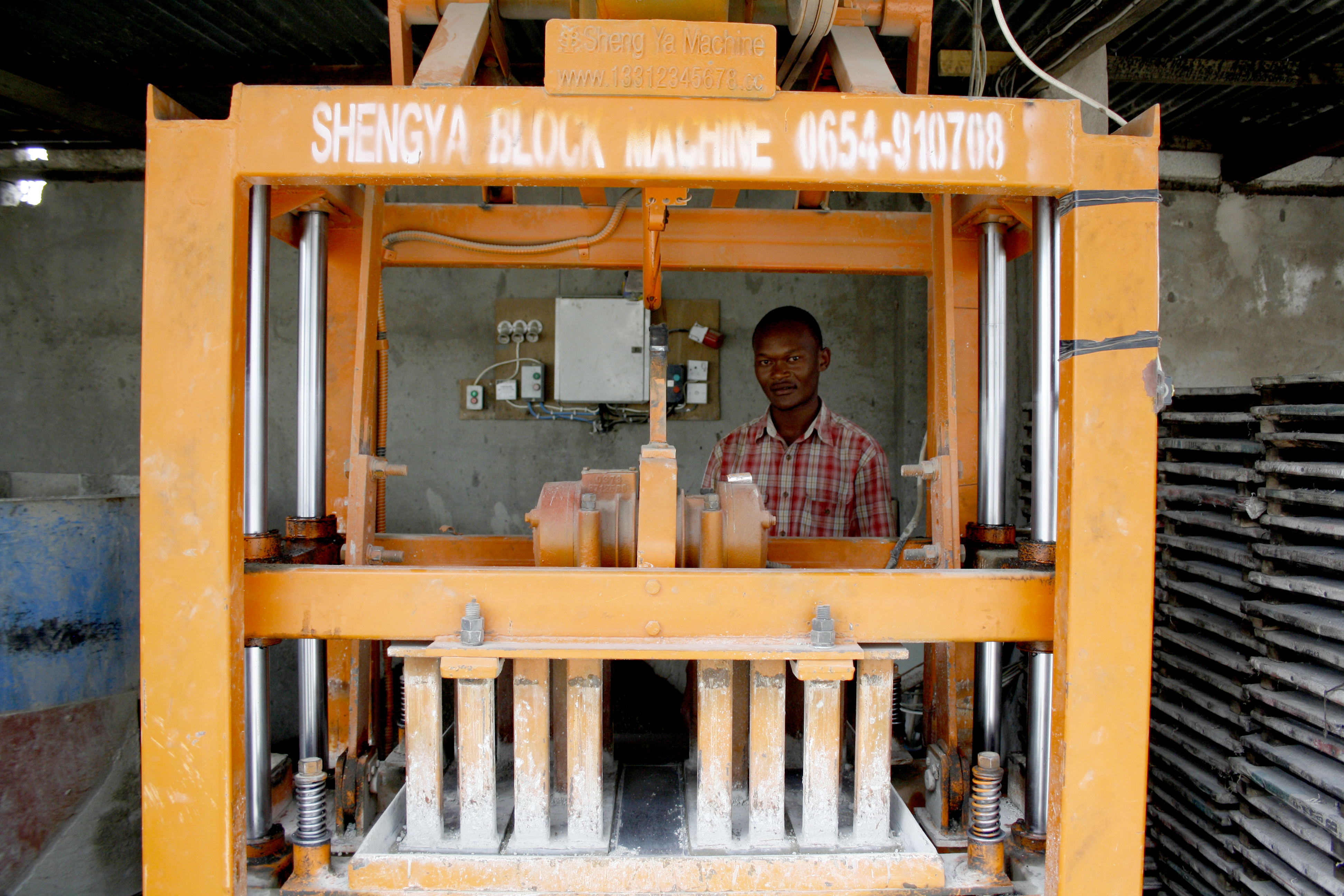 As Tanzania's economy grows, so will the demand for building materials as its cities expand. James Rikoyan is a young entrepreneur who's taking advantage of this opportunity, expanding his own family business of brick-making. Thanks to Equity for Tanzania – a partner backed by the UK to provide industrial equipment on a loan basis – he now has a brand new brick-making machine and can employ 7 people. James says: “I started making bricks with my father when I was 11 years old. Back then we did it by hand. With this machine we can make five times more per day, and it is much easier. I mostly sell to local people to build their houses, also local schools. I’ve also started making steel grill work for windows and doors – because I know if people are coming to me for bricks they will want other things for their new house. In the future I want to build my own construction company.” The initiative is part of a wider drive by the UK to promote business that can help build prosperity. Find out more at: Picture: Ed Hawkesworth/DFID